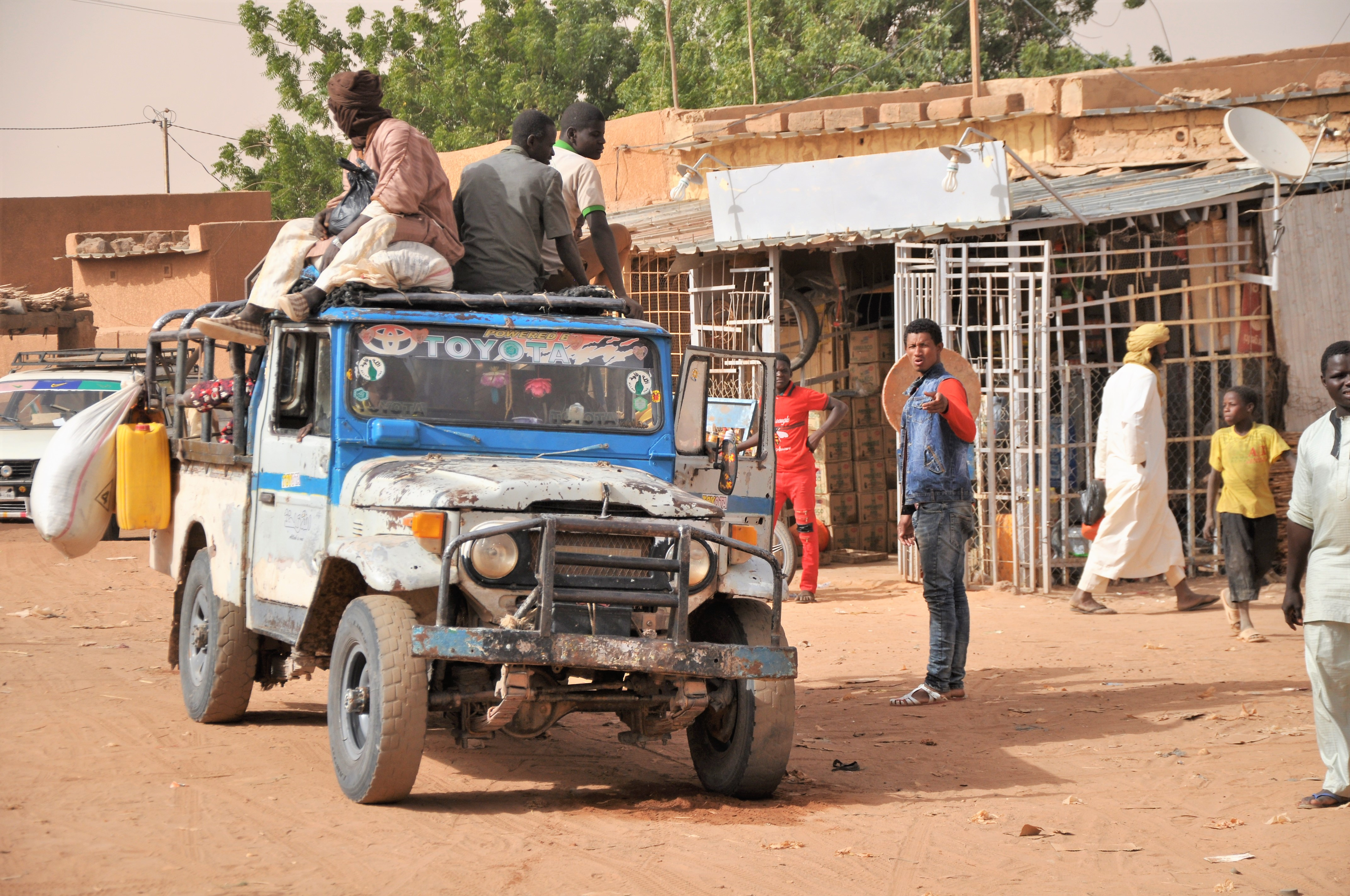 A Toyota Land Cruiser in the centre of Filingué (Filingué Department, Tillabéri Region), Niger.